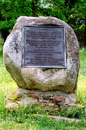 Memorial to Colonel Fletcher Webster, commander of the 12th Regiment Massachusetts Volunteer Infantry, who was killed at the Second Battle of Bull Run (Manassas)